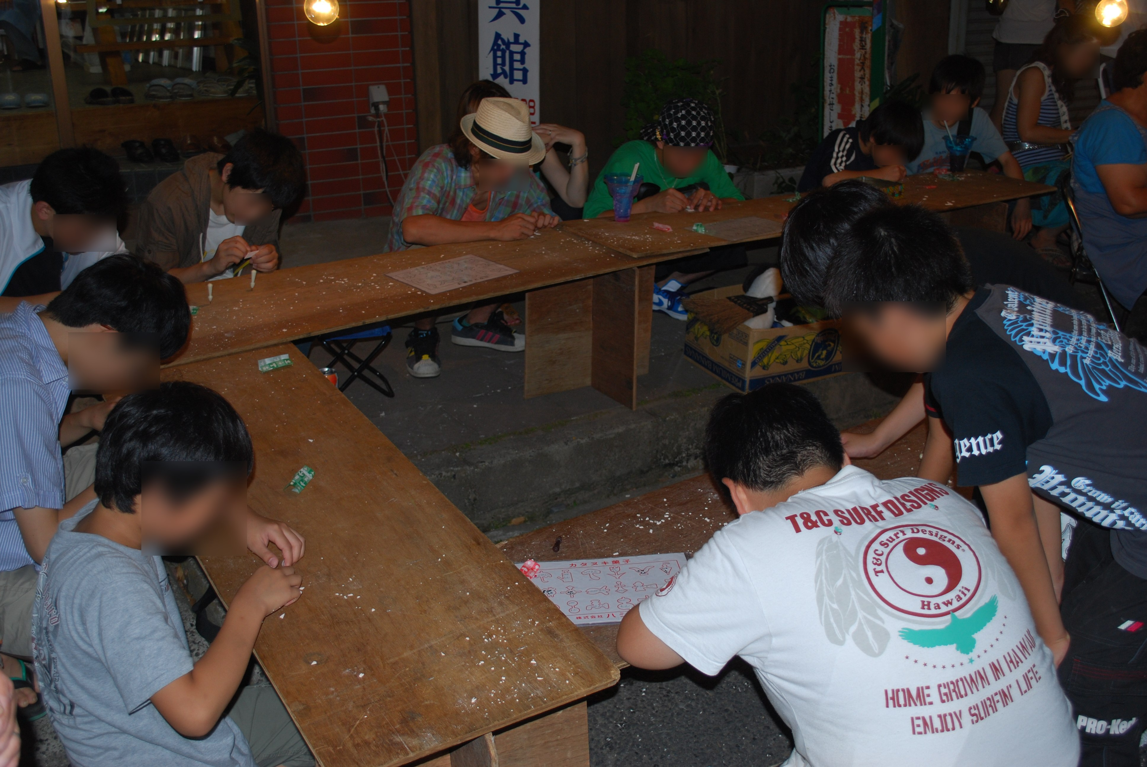 Children playing Katanuki at the Edosaki Gion Matsuri (Edosaki Gion Festival) in Inashiki City, Ibaraki Prefecture, Japan. With a needle or a thumbtack, they dig out a model without breaking a board with the various models such as an animal or the star drawn on the board-shaped cake. If this is made; play to get a premium.